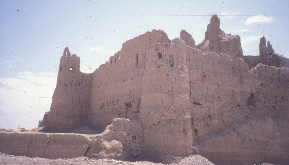 Narin Ghal'eh — Naeen, Iran. Probably pre-Islamic era — adobe building.